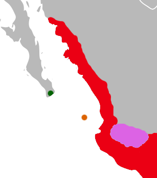 Distribution of the genus Oryzomys in western Mexico. Red: Oryzomys couesi pink: Oryzomys albiventer orange: Oryzomys nelsoni dark green: Oryzomys peninsulae.